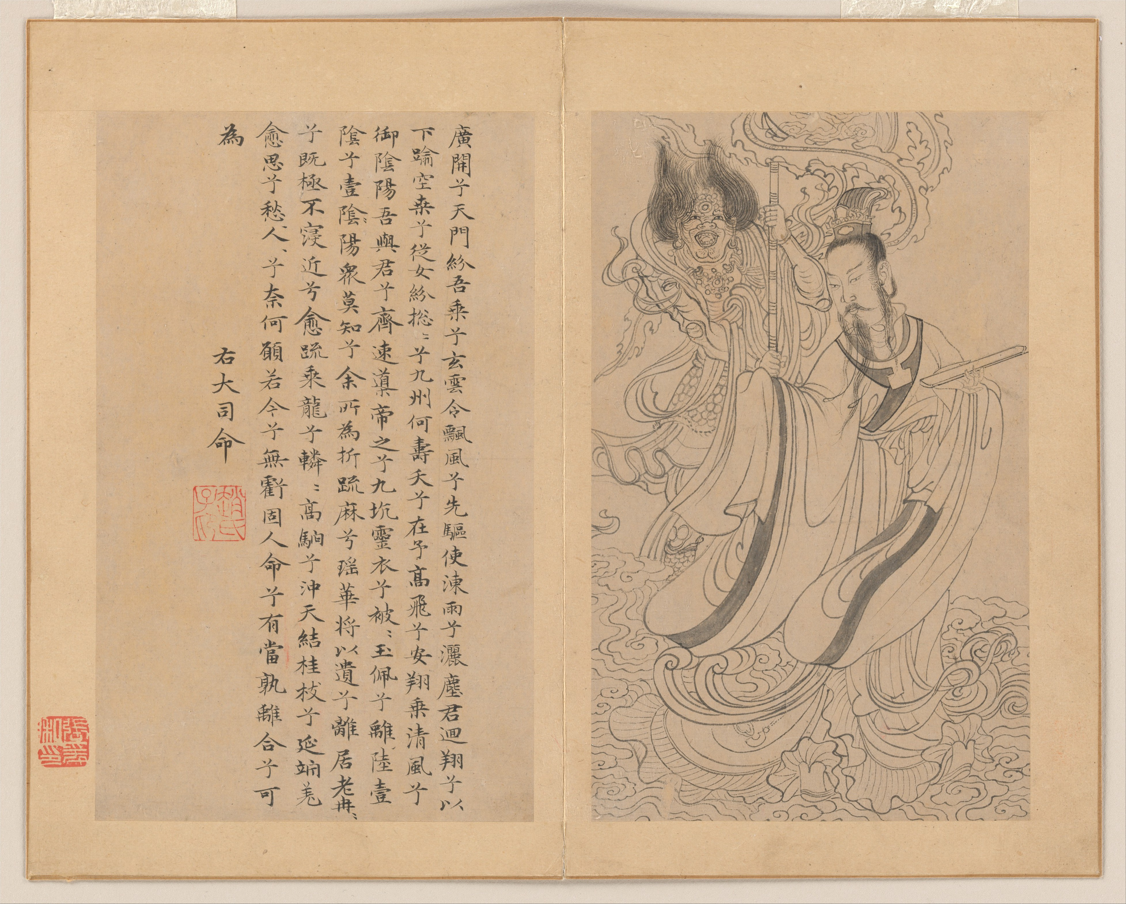 The Metropolitan Museum of Art states: The Nine Songs are lyrical, shamanistic incantations dedicated to nine classes of deities worshipped by the Chu people of south China during the first millennium B.C. The original text consists of eleven songs, ten of which are transcribed and illustrated here. The illustrations are preceded by a portrait of the poet Qu Yuan (343–277 B.C.), which is accompanied by an essay entitled "The Fisherman," recounting the poet's state of mind toward the end of his life. Zhao Mengfu's paintings for the Nine Songs in the baimiao, or "white-drawing" style, are based on compositions by Li Gonglin (ca. 1041–1106) and were a primary source for later fourteenth-century paintings of this theme by Zhang Wu (active 1333–65) and others. Because the calligraphy in the album does not compare with the best of Zhao Mengfu's writing, it is probable that these leaves represent close, reliable copies of Zhao's important work, executed during the fourteenth century. One leaf, "The Lord of Clouds," is a later replacement (no earlier than the seventeenth century).